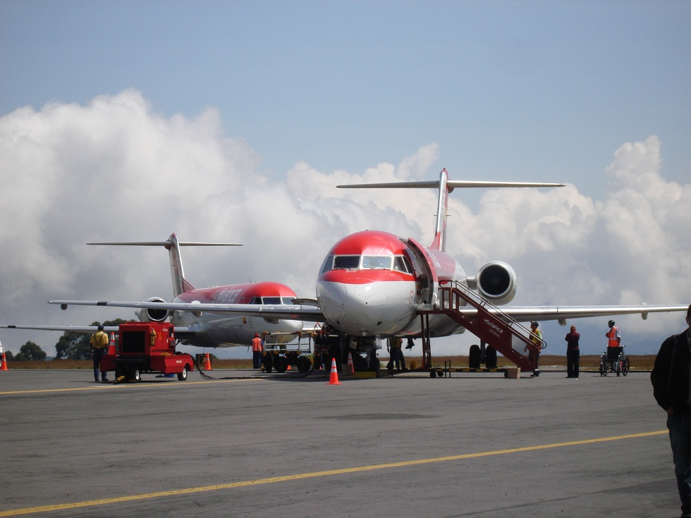 Aviones Fokker F100 en el Aeropuerto Antonio Nariño